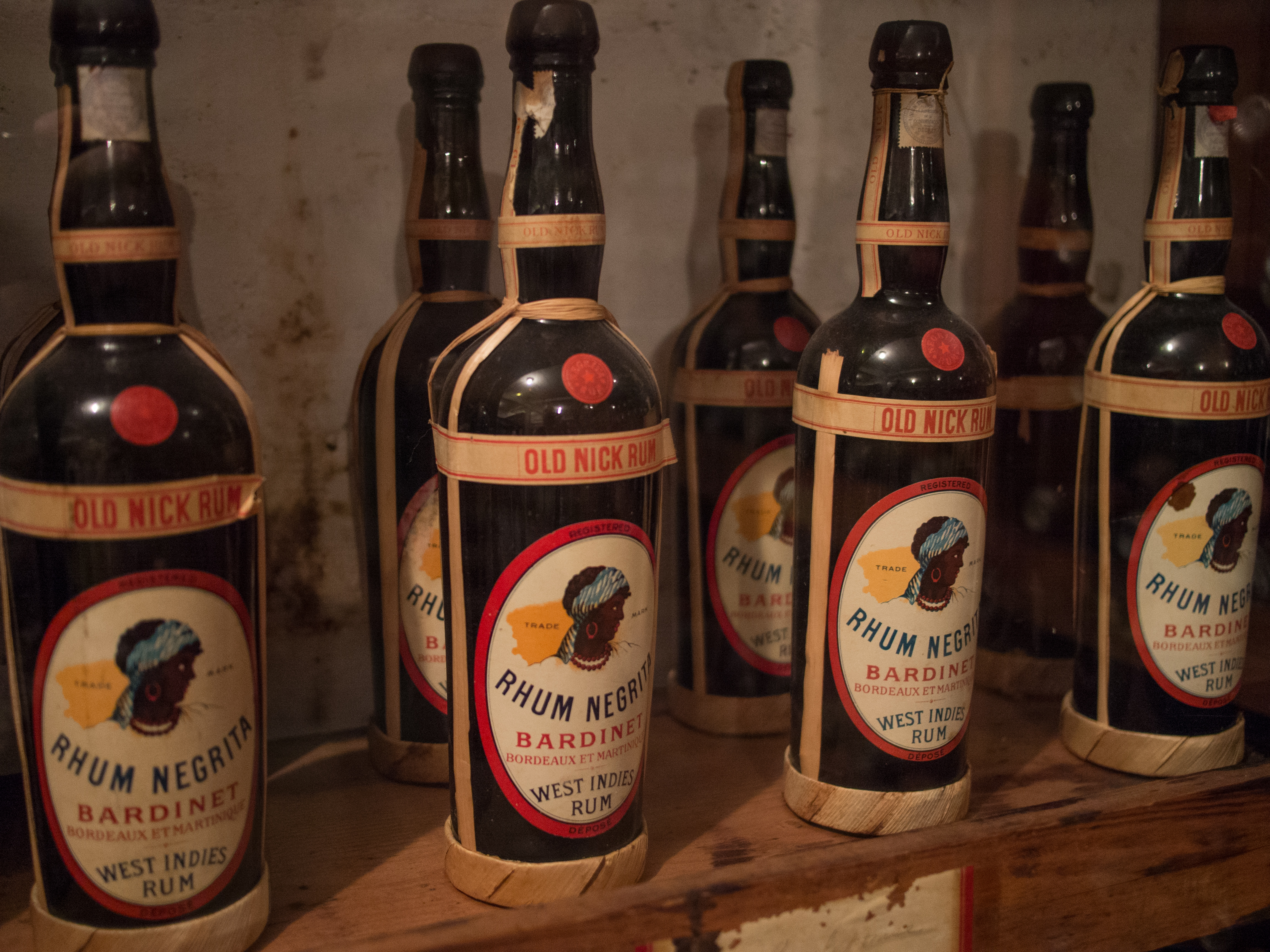 Bottle of Rhum Negrita